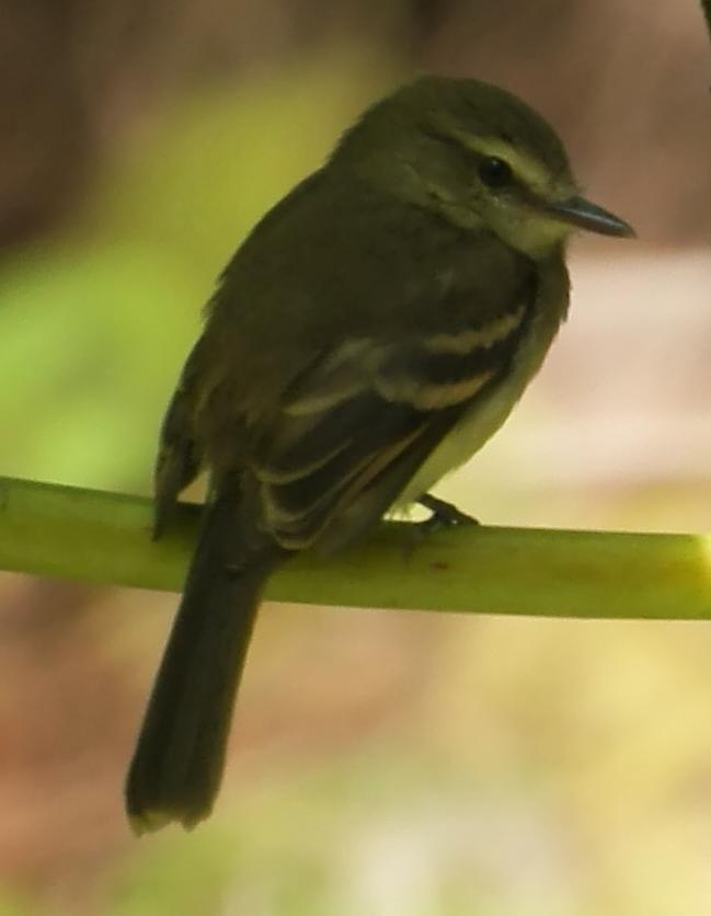 Fuscous Flycatcher